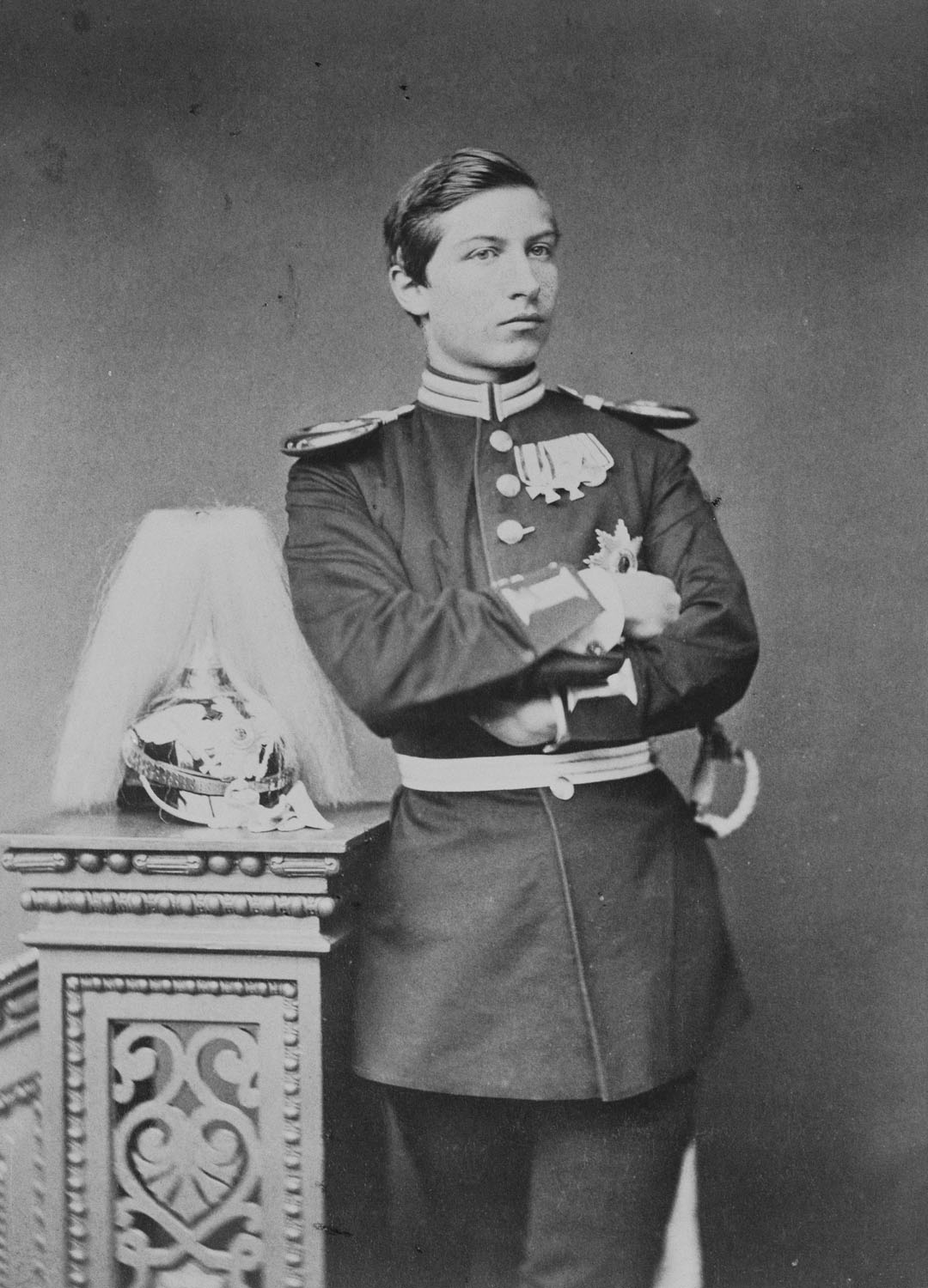 Prinz Wilhelm, 1877.